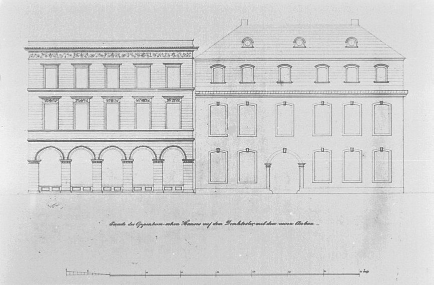 Domkloster 1, Feder, Haus Oppenheim links, mit angrenzendem Eckhaus am Wallfrafplatz, um 1835, rba_mf023095.